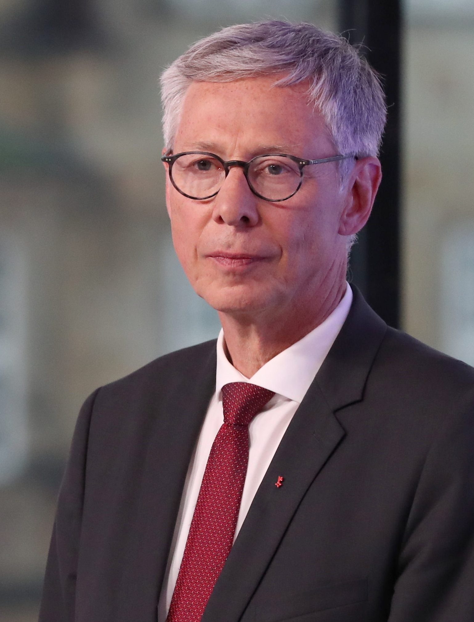 Election night Bürgerschaft of Bremen 2019: Carsten Sieling (SPD)